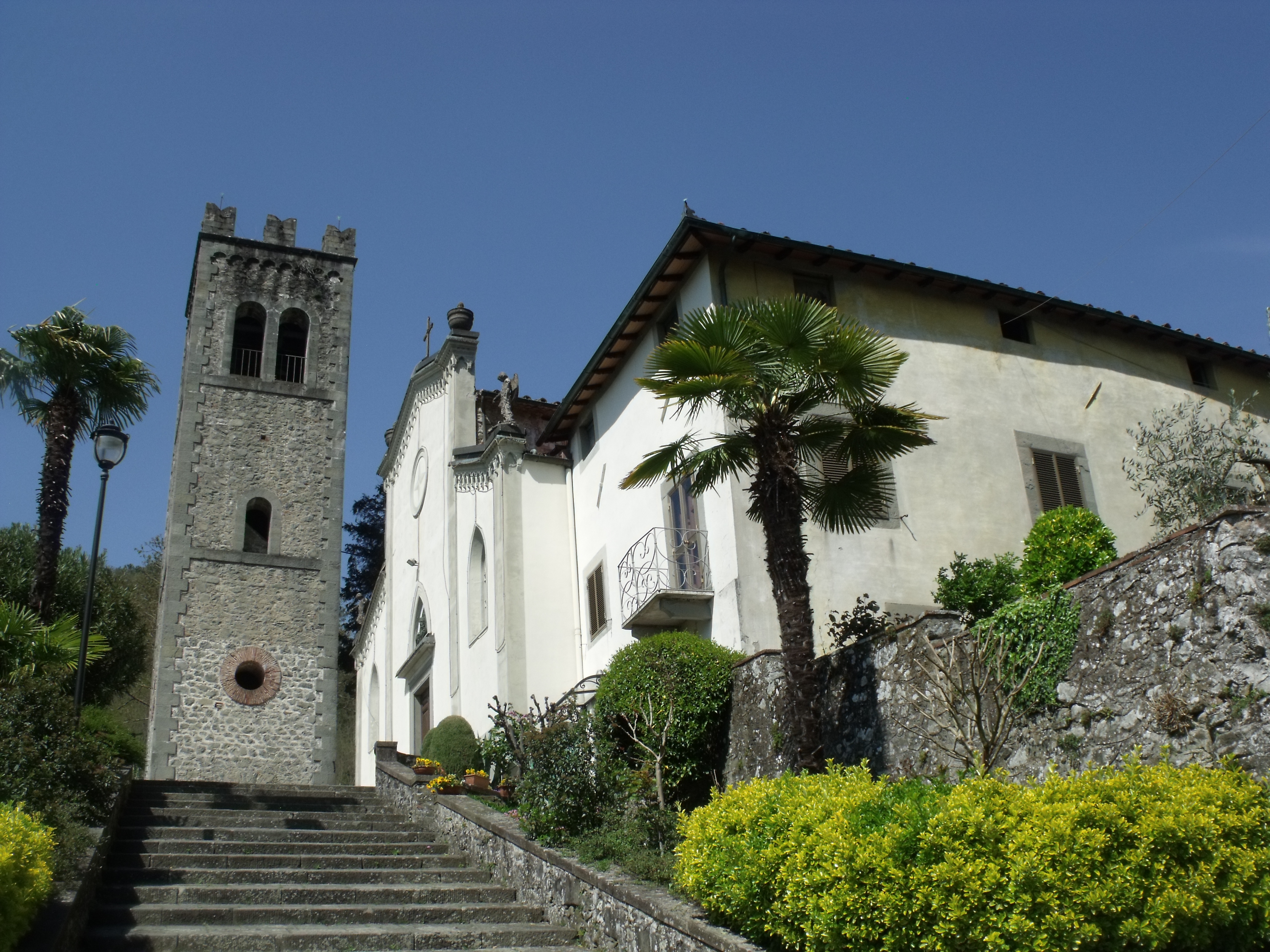 Church Chiesa dei Santi Pietro e Paolo in Fornoli, hamlet of Bagni di Lucca, Province of Lucca, Tuscany, Italy